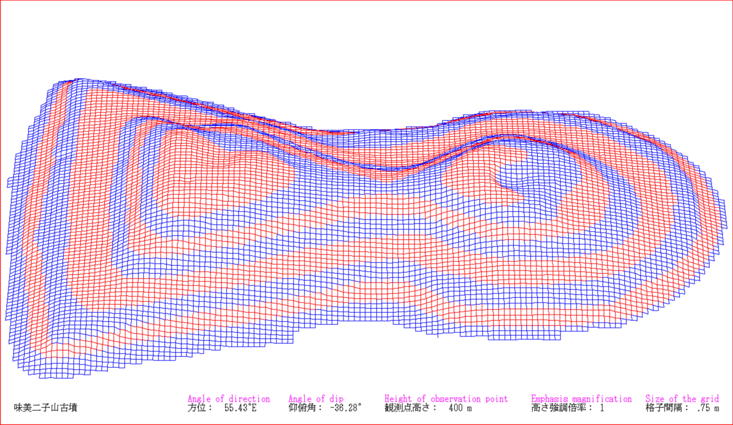 I who am a contributor drew the picture by a software which developed by myself. The survey map which I referred to depends on "「味美二子山古墳周辺部の調査」『味美二子山古墳の時代 第一分冊』春日井市（1998年）". This is a drawing of present situation (not a drawing of a restored mound). The drawing depends on combination of wire frame and height eight phases classification. Perspective projection.